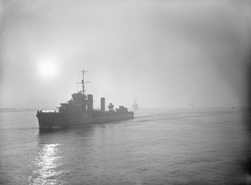 The Royal Navy during the Second World War Destroyers at sea at dawn with the sun just rising off Plymouth. HMS WITCH is leading.